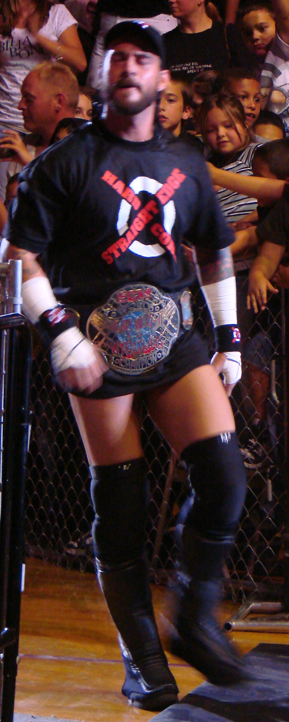 ECW Champion CM Punk. Hammond Civic Center, Hammond, Indiana, September 30en:2007. Taken by me.